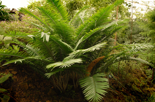 A clump of male Encephalartos villosus in Teplice Botanical Garden (Bohemia) is at least 100 yrs old (1904). The largest trunk in the group measures only 26 cm